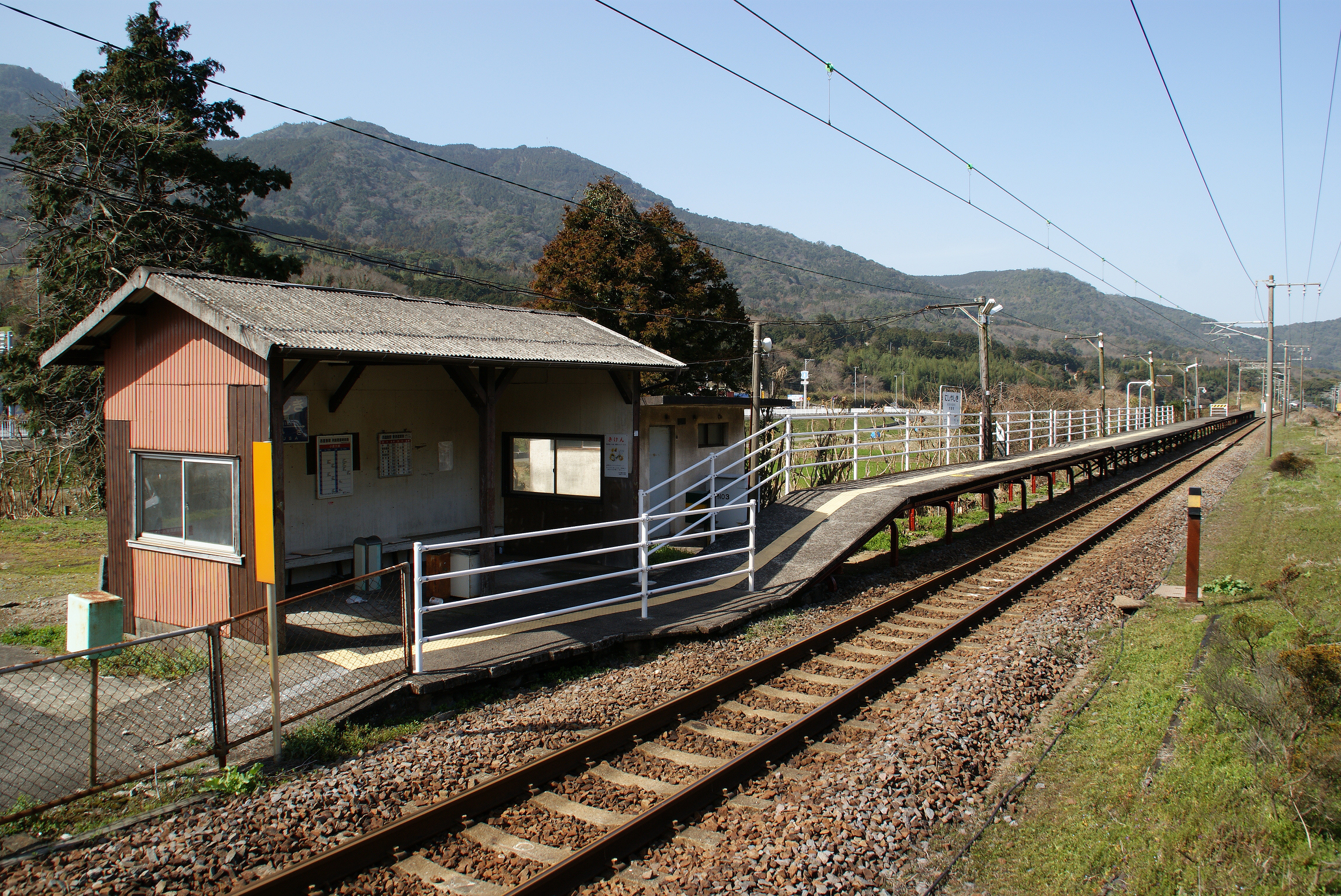 Kyushu Railway, Nishiyashiki Station in Usa City, Oita Prefecture, Japan